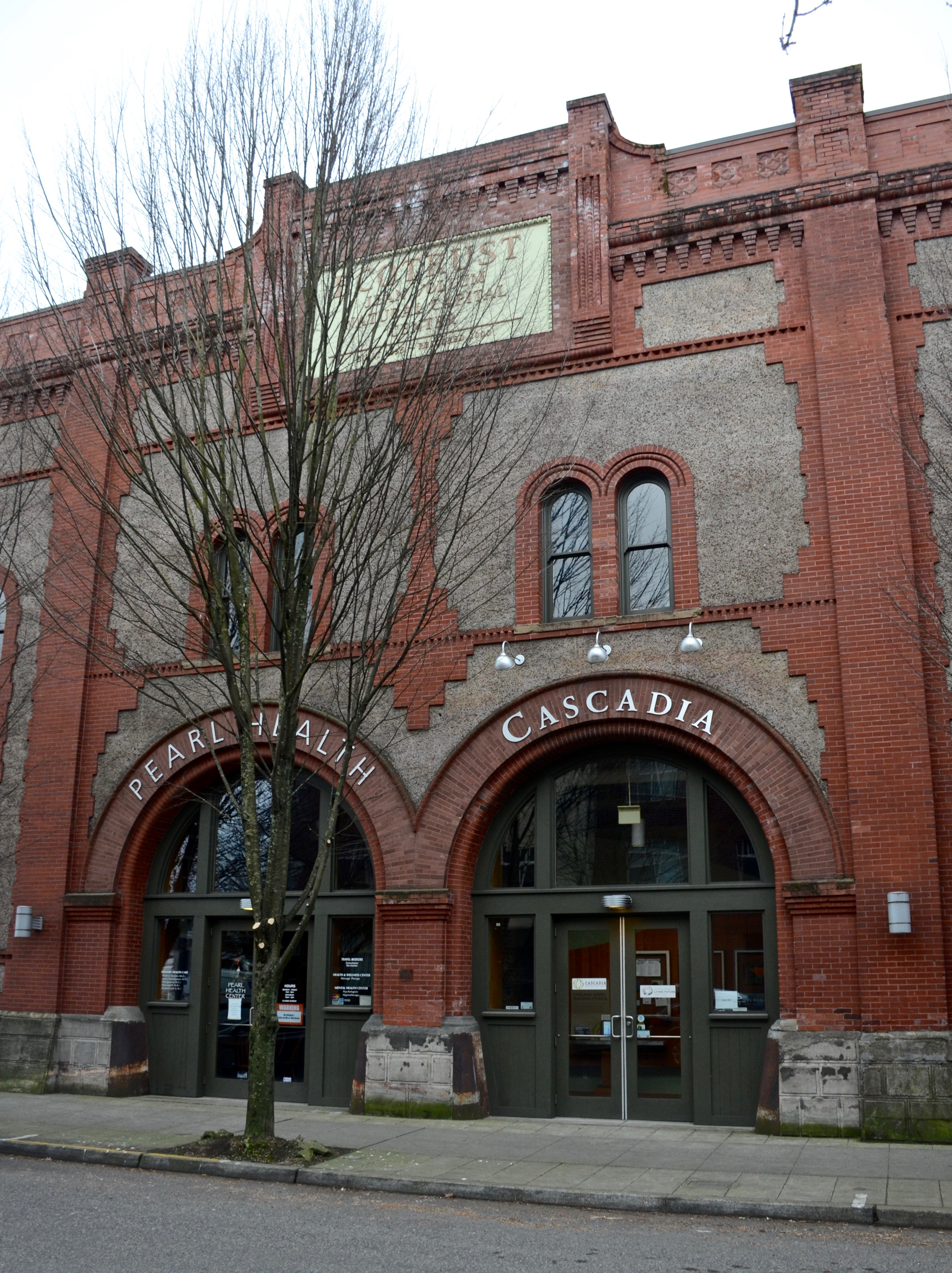 The north end of the Natural Capital Center, in Portland, Oregon, on NW Johnson Street. Signage for the entrances at this end refers to the Pearl Health Center and the Cascadia Region Green Building Council.